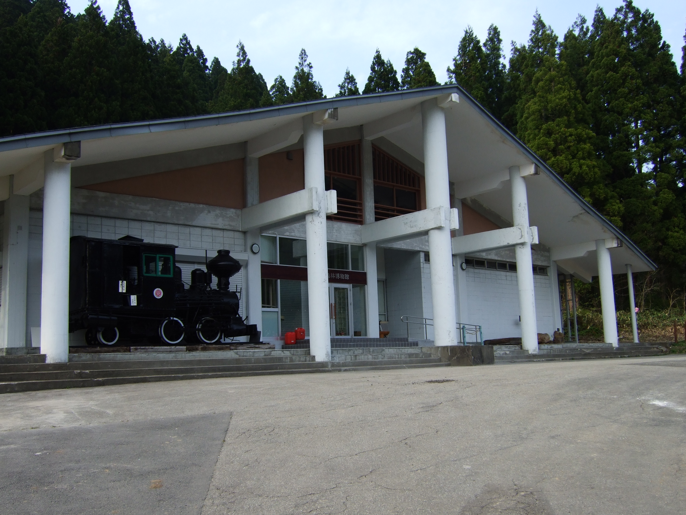 仁別森林博物館 (Nibetu forestry museum) in Akita-city, Japan